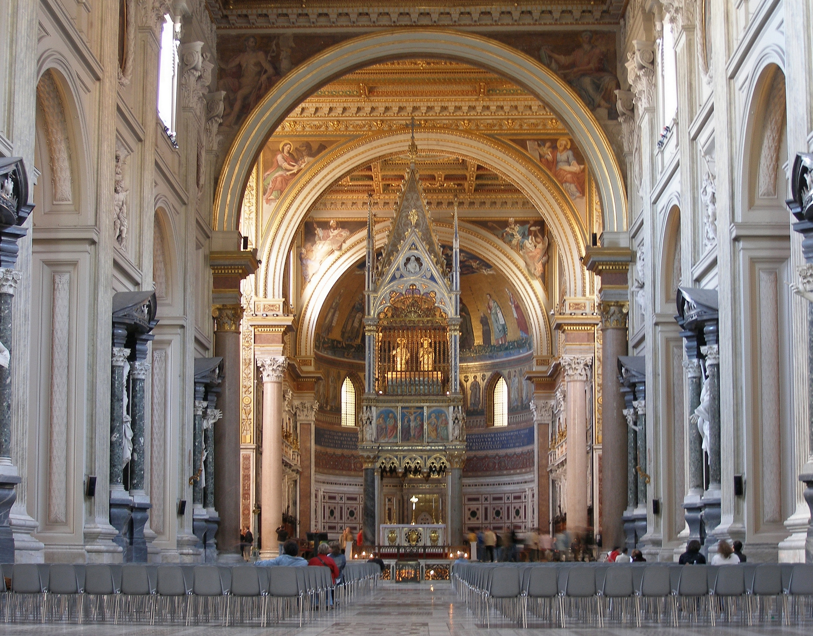 Rome, Interior of San Giovanni in Laterano